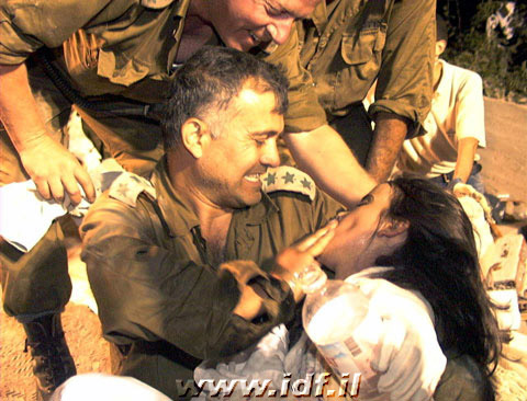 Isaac Ashkenazi participating in rescue efforts in the aftermath of the 1999 Izmit, Turkey earthquake.